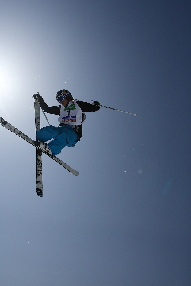 MARCH 5, 2009 - Freestyle Skiing : Xavier Bertoni of France in action during the Half-pipe in the 2009 FIS Freestyle World Championship Inawashiro on March 5, 2009 in Fukushima, Japan. (Photo by Tsutomu Takasu)